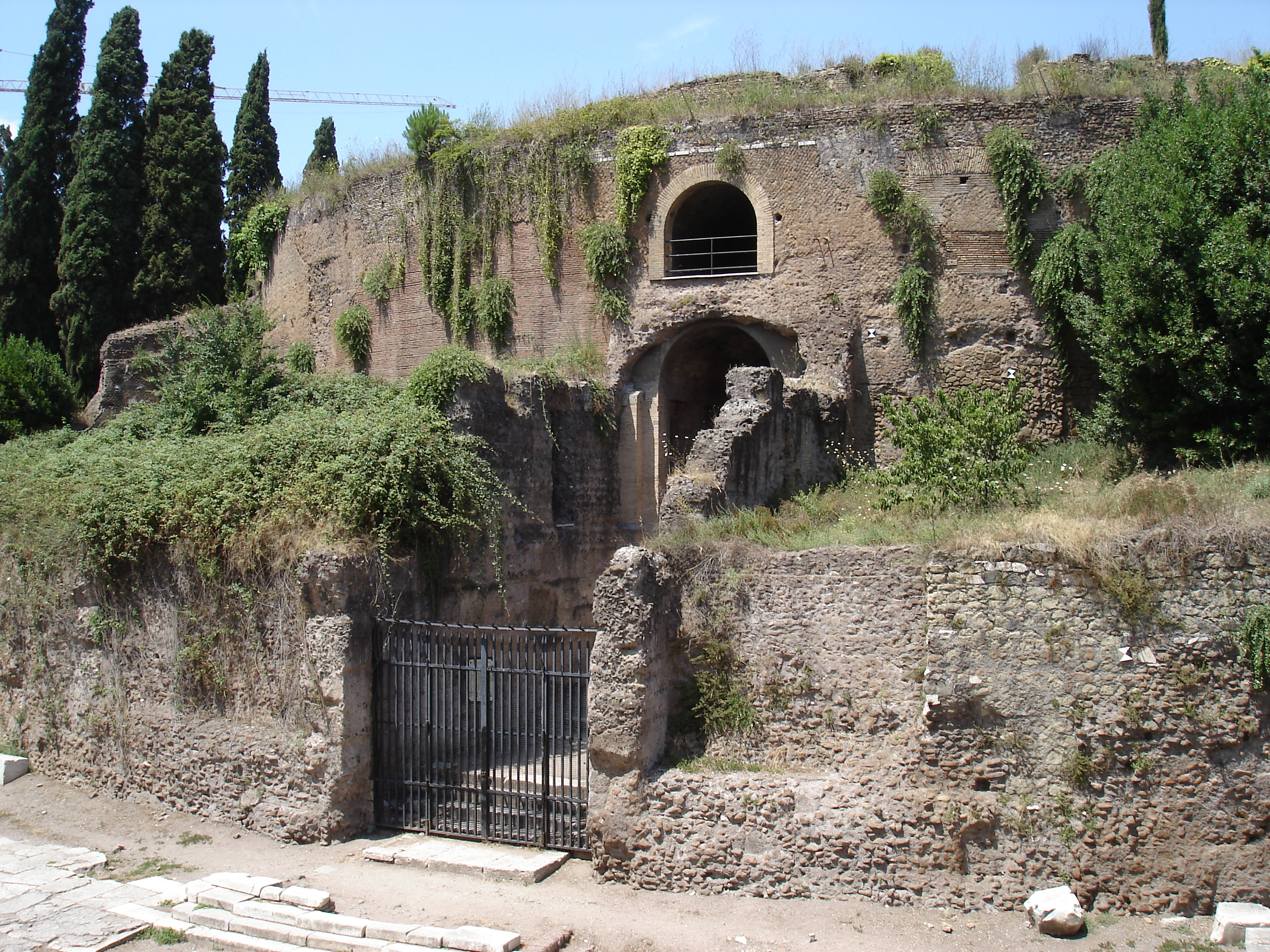 Mausoleo di Augusto, Roma, Italy.